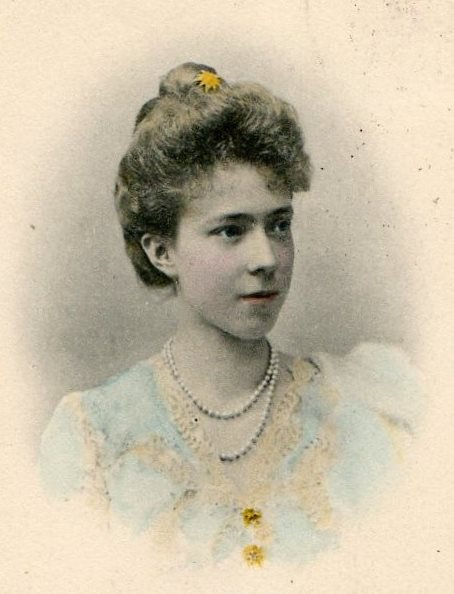 Queen Elisabeth of Belgium (1876-1965)